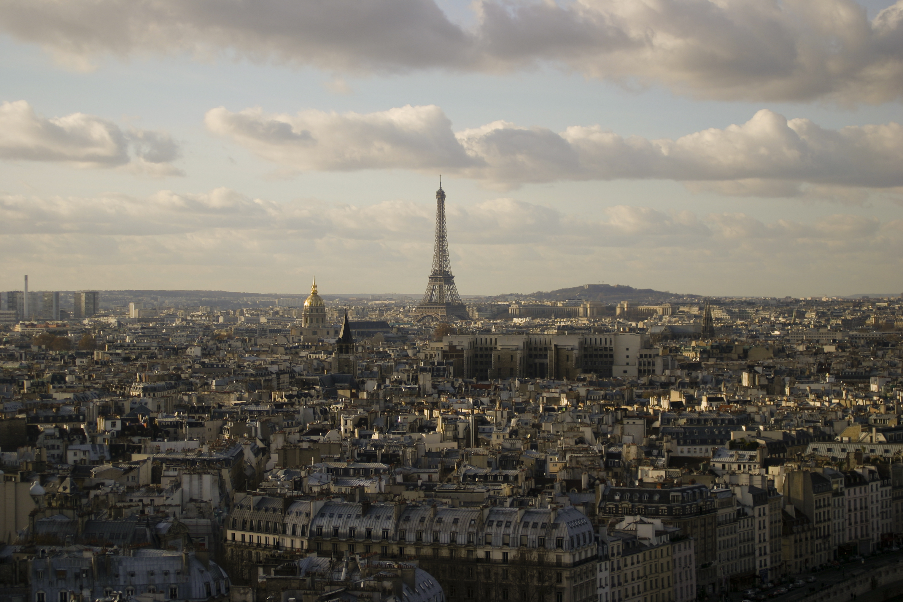 This shot from the top of Notre Dame shows both the Eiffel Tower and Les Invalides, where Napoleon's tomb is located. Paris, France, December 2005